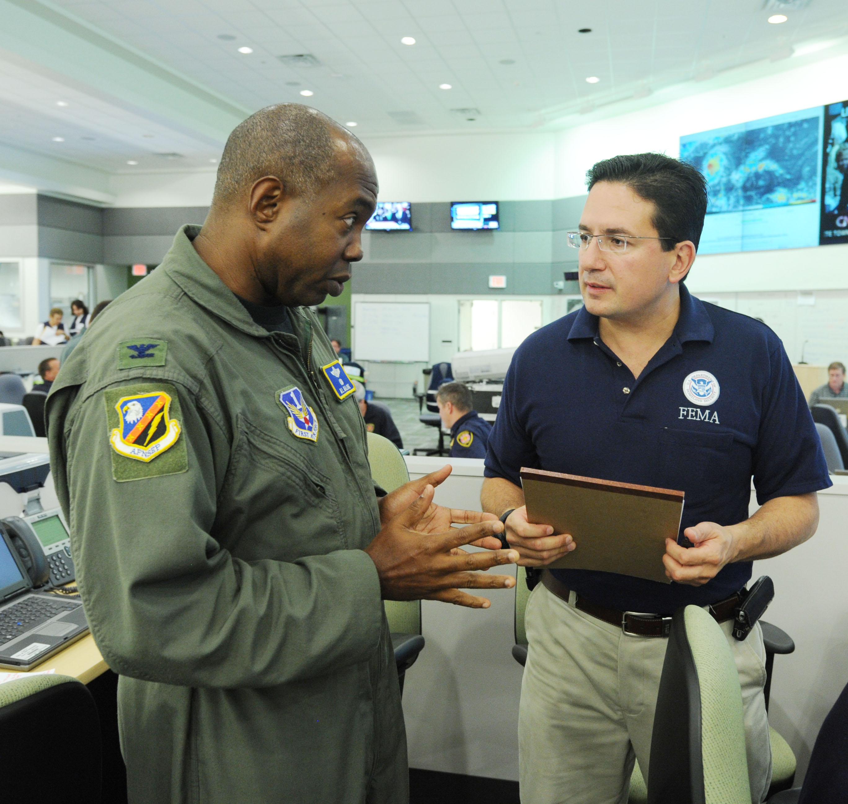 San Antonio, TX, September 10, 2008 -- Emergency Preparedness Liaison Officer to FEMA, Col., Malone from First Air Force, left, talks to Jamie Forero, Division Supervisor for the Alamo Regional Command Center talks to different partners for the preparedness response to Hurricane Ike. Jocelyn Augustino/FEMA